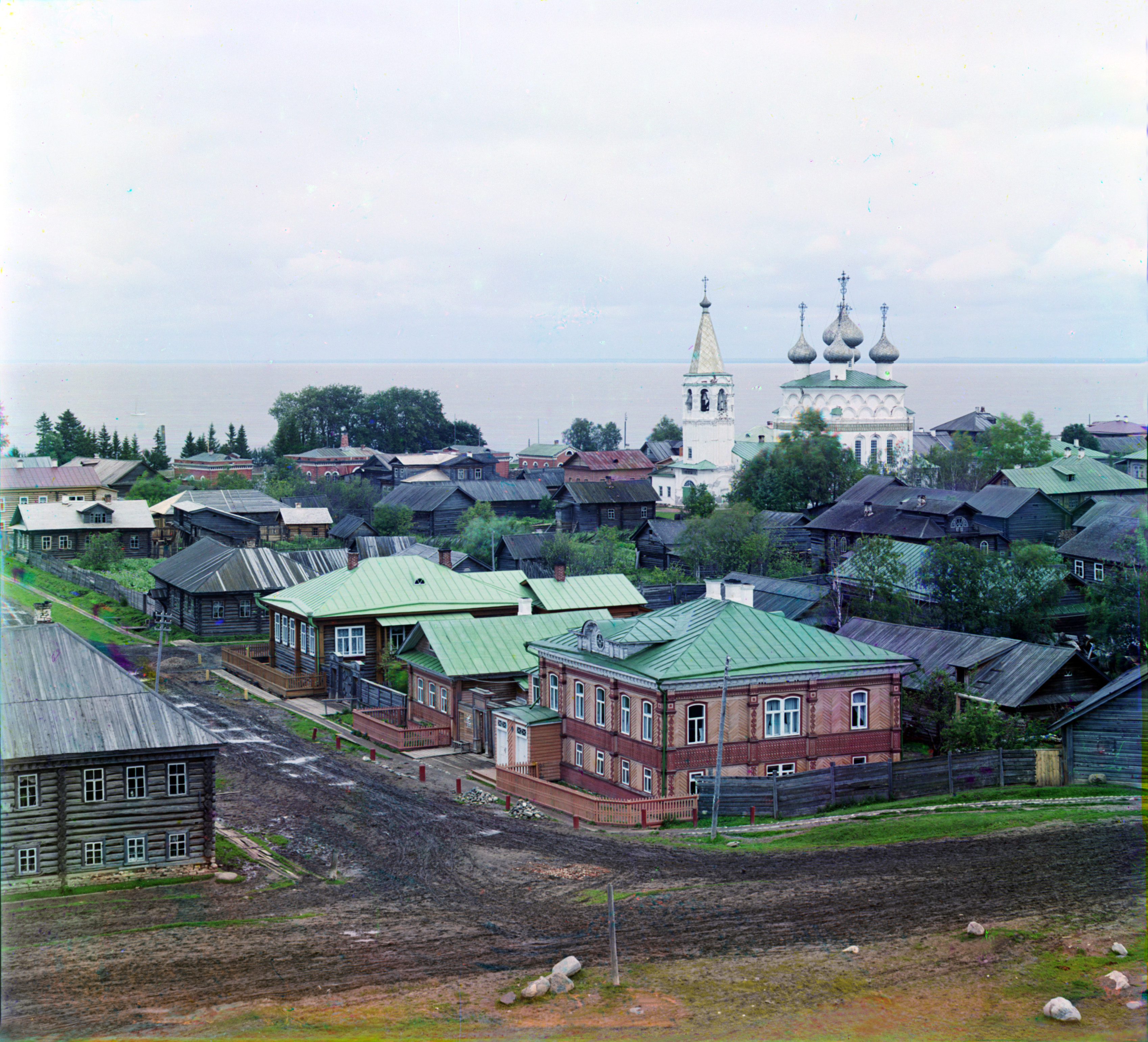 View on Belozersk Russia from earthen wall in 1909. TITLE: Obshchīi vid gor. Belozerska s kriepostnogo vala. [Rossiiskaia imperiia] TITLE TRANSLATION: General view of the city of Belozersk from the fortress wall. [Russian Empire]